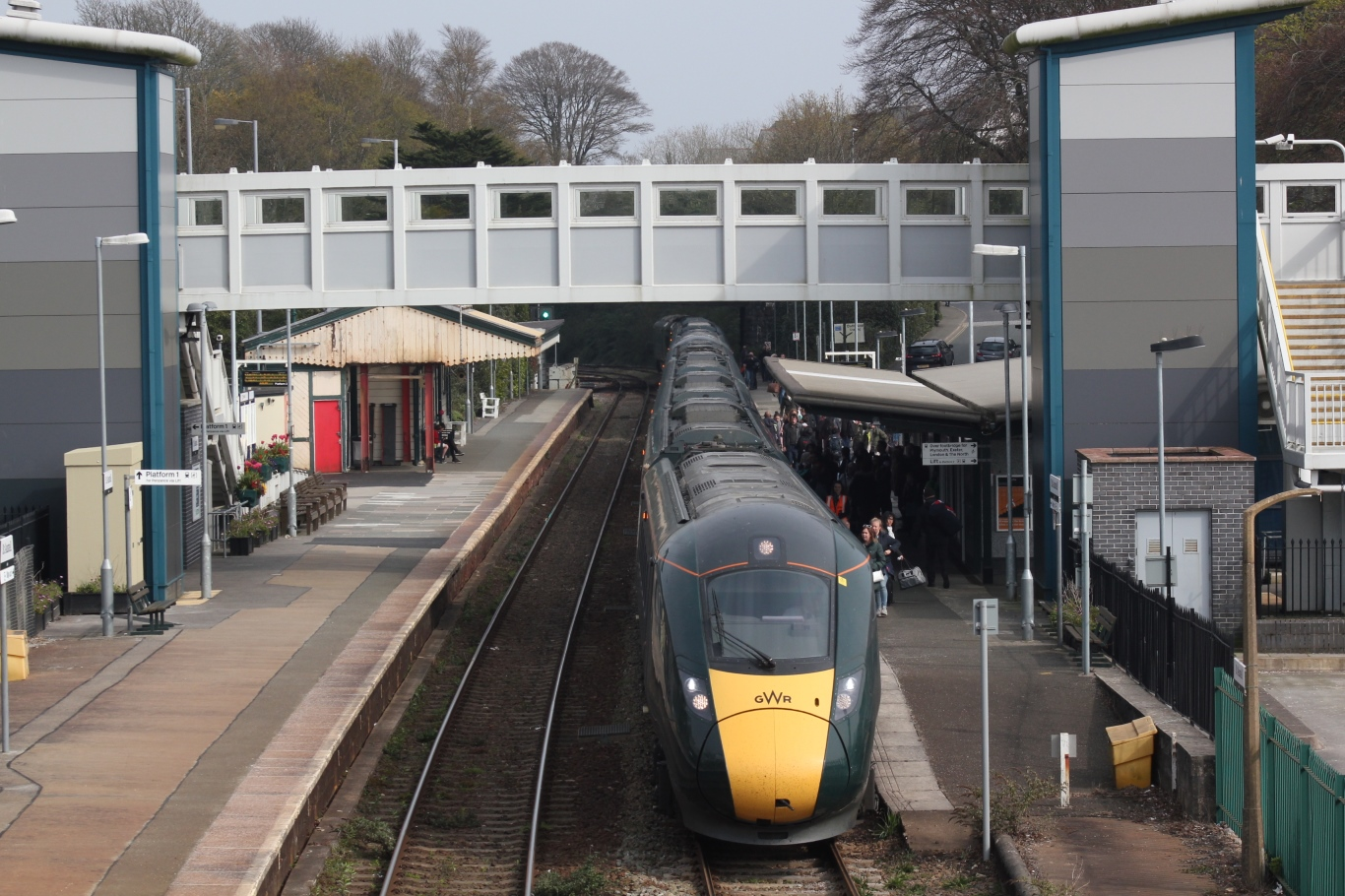 A ten-coach InterCity Express Train (formed by units 802022 and 802020) calls at St Austell with a Great Western Railway service from London Paddington to Penzance.